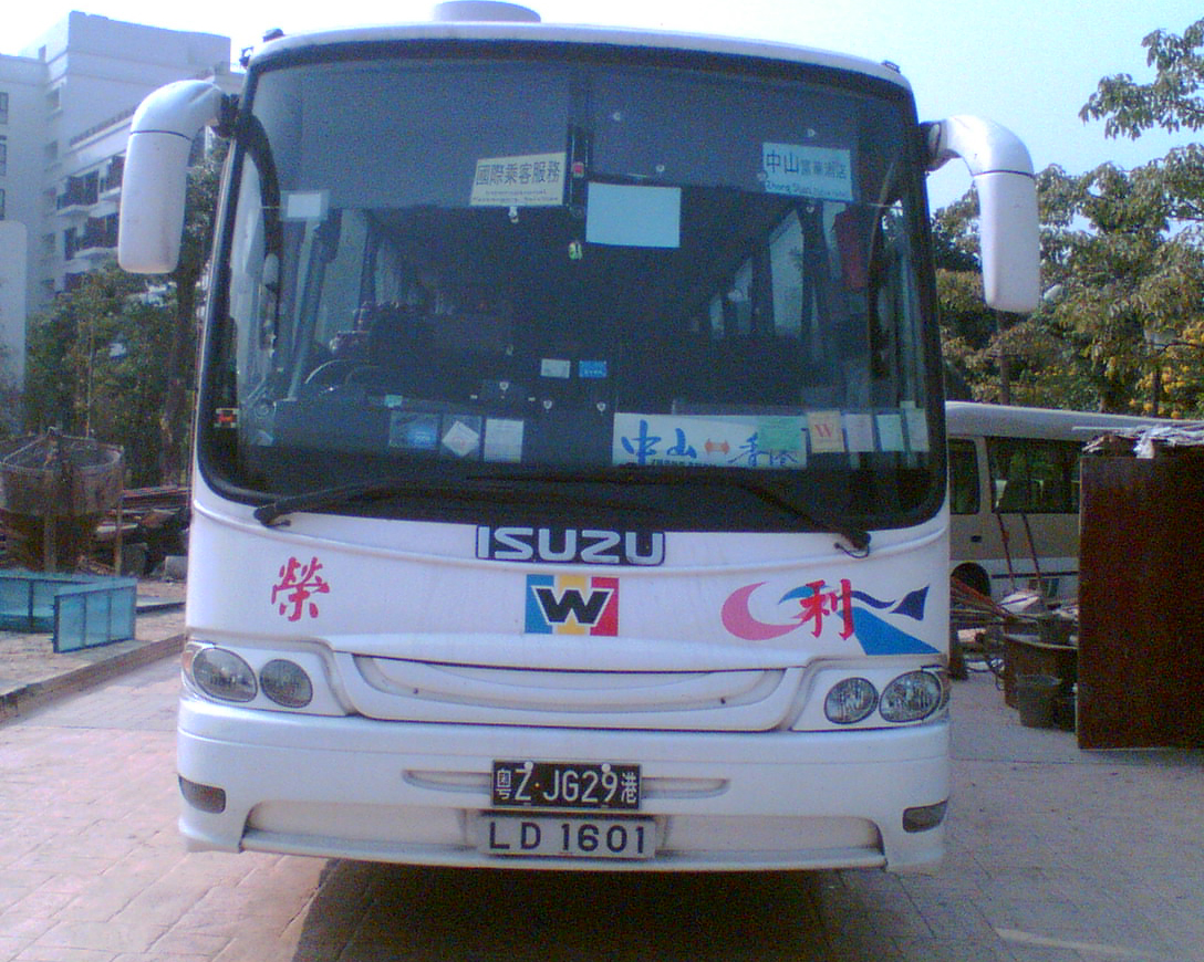 ISUZU bus with Jit-Luen bodywork at China.